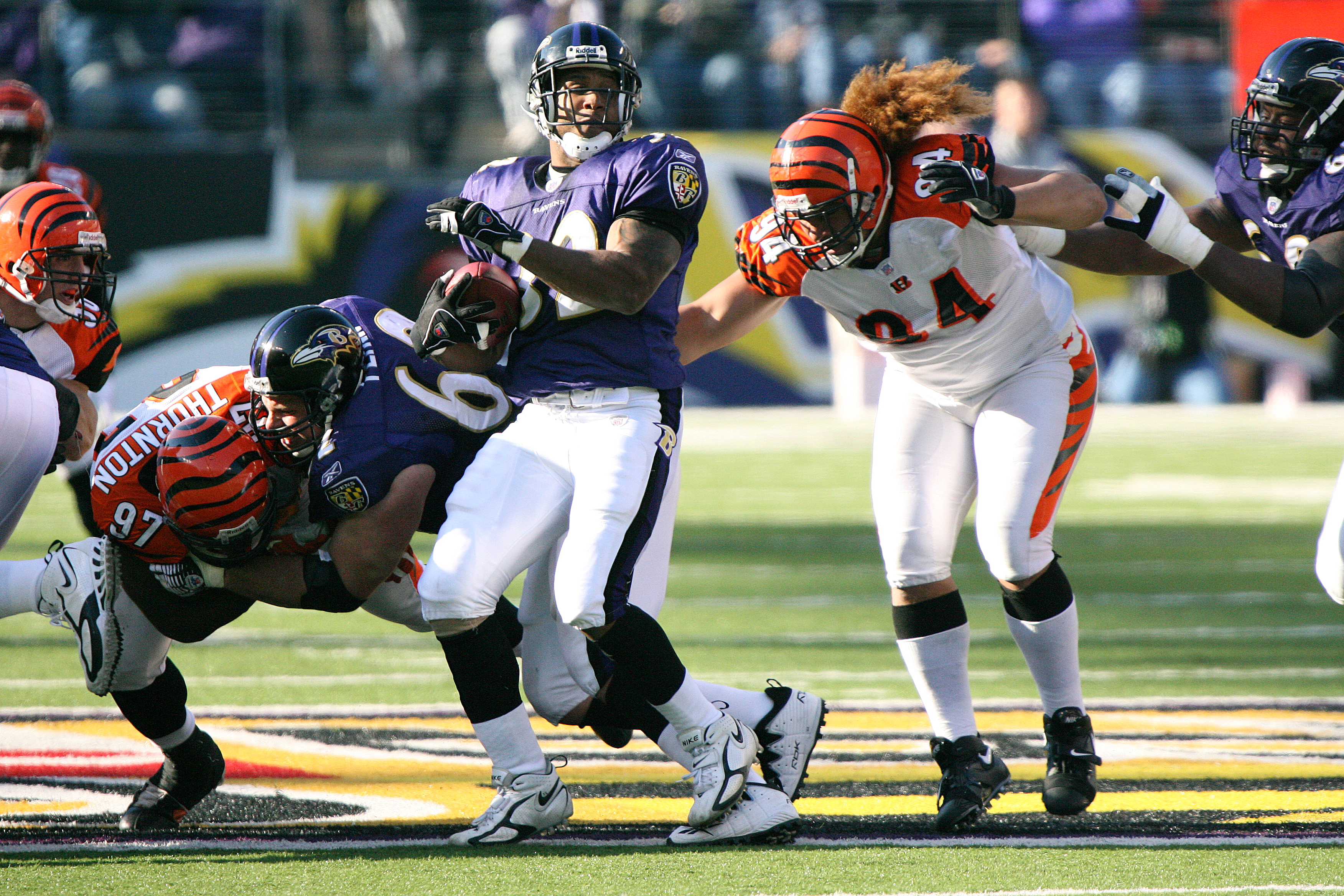 Domata Peko starts tackling Musa Smith.